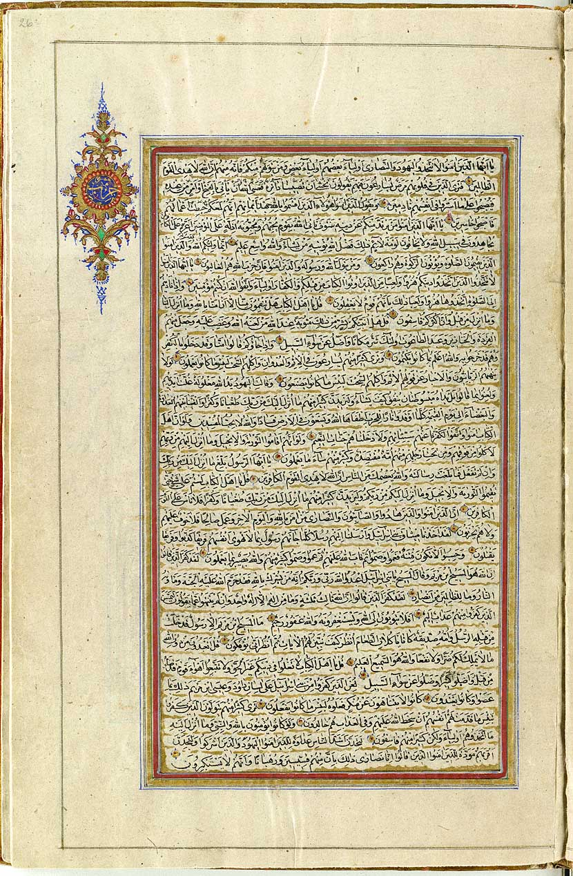 Scan of a Qur'an from the year 1874